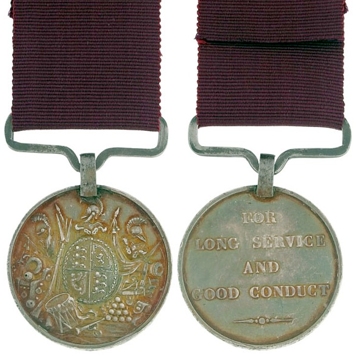 The Queen Victoria version of the Army Long Service and Good Conduct Medal with a curved bar suspender